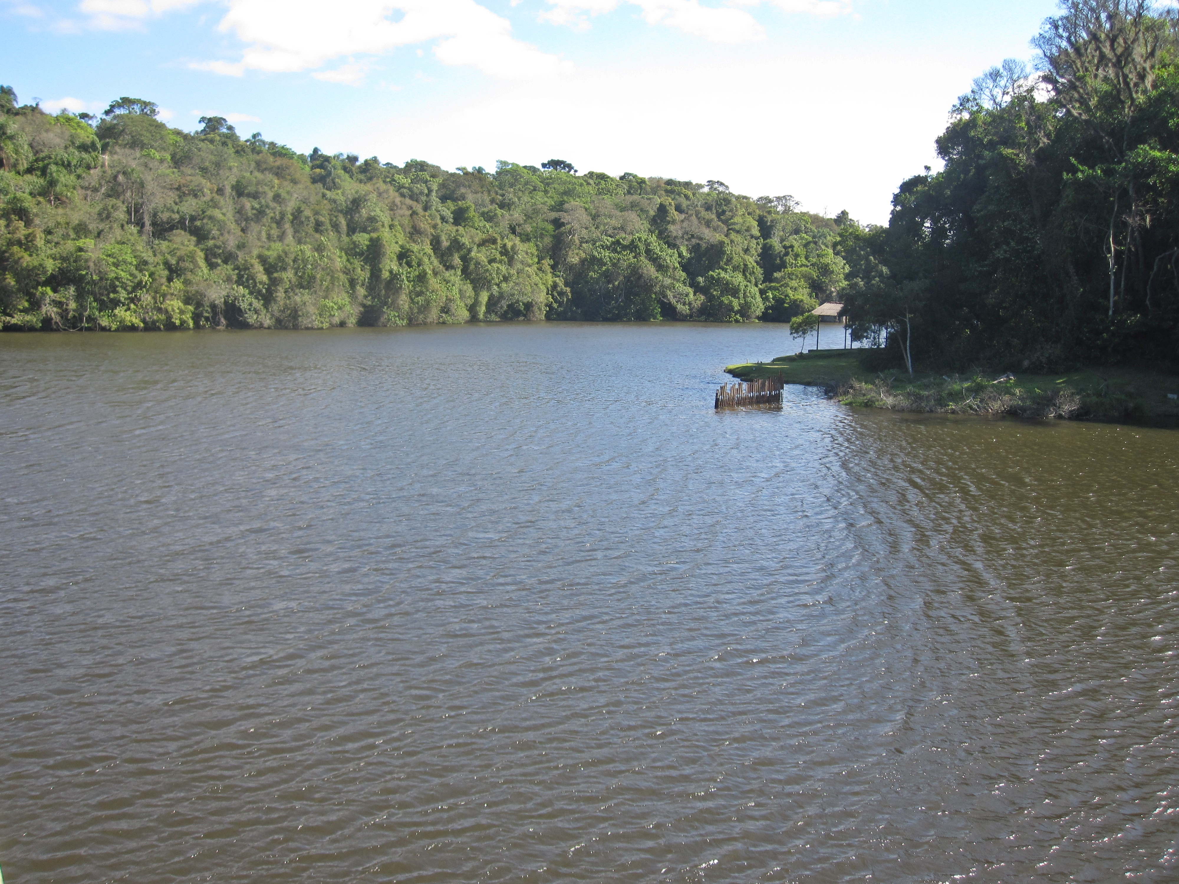 Graça Barrage in Cotia, São Paulo, Brazil.